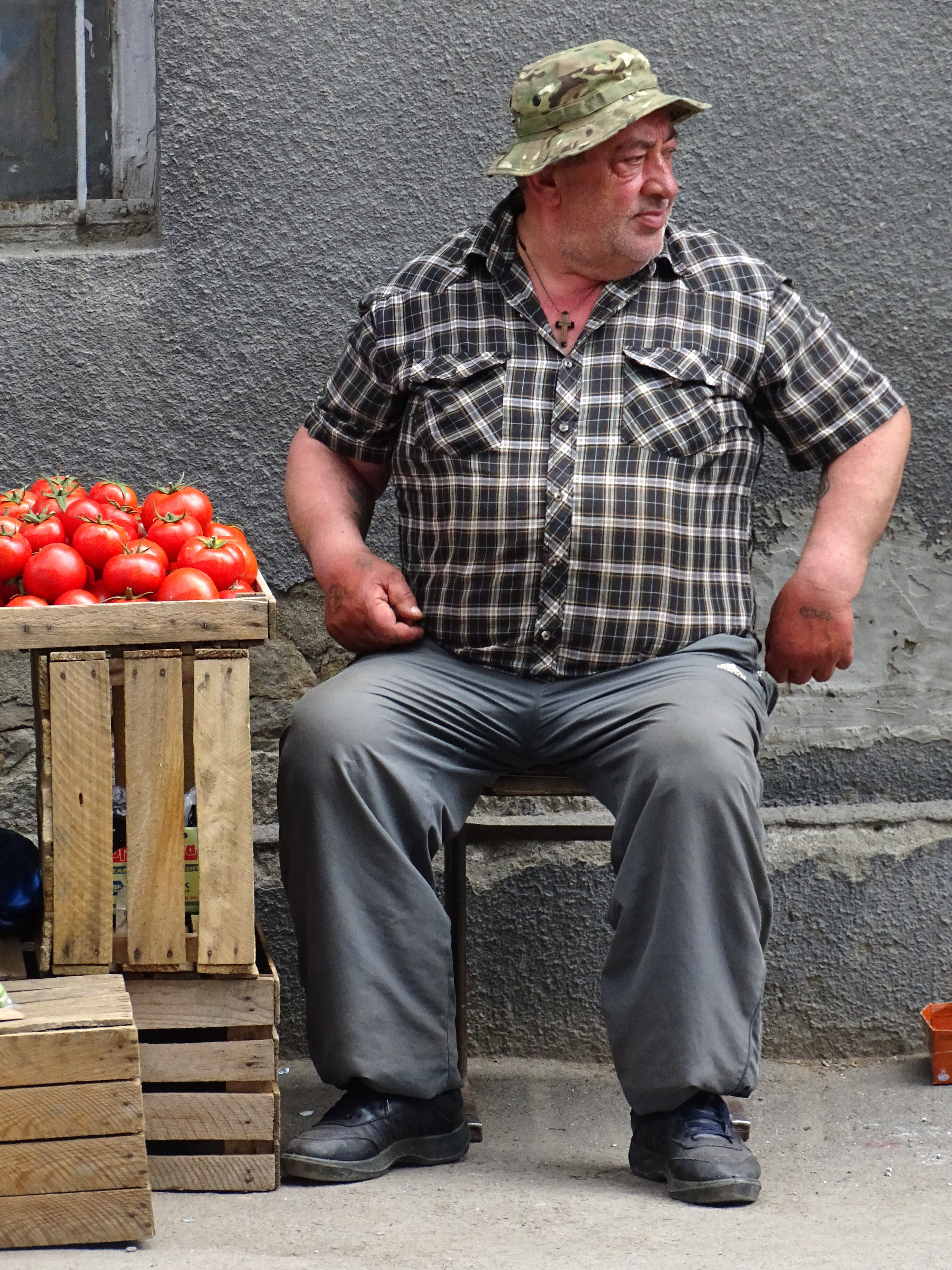 Man in Market - Gori - Georgia